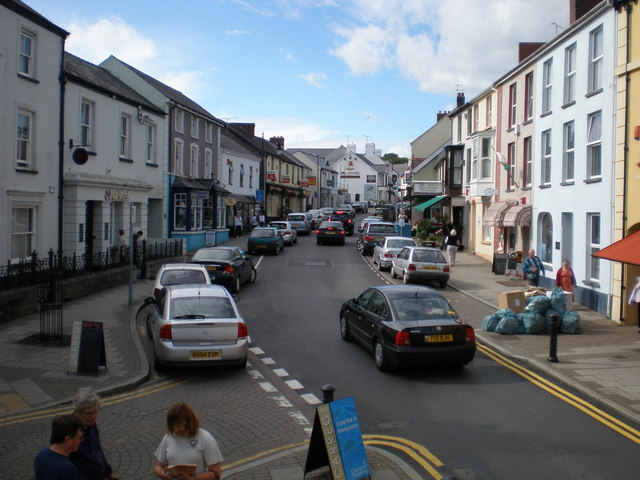 Narberth High St looking North. A busy, clean and pleasant little town.